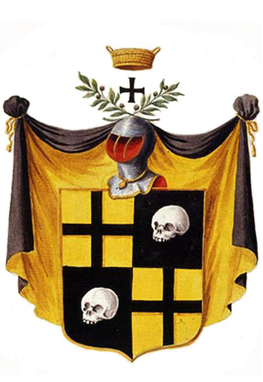 Wappen von Körber N9